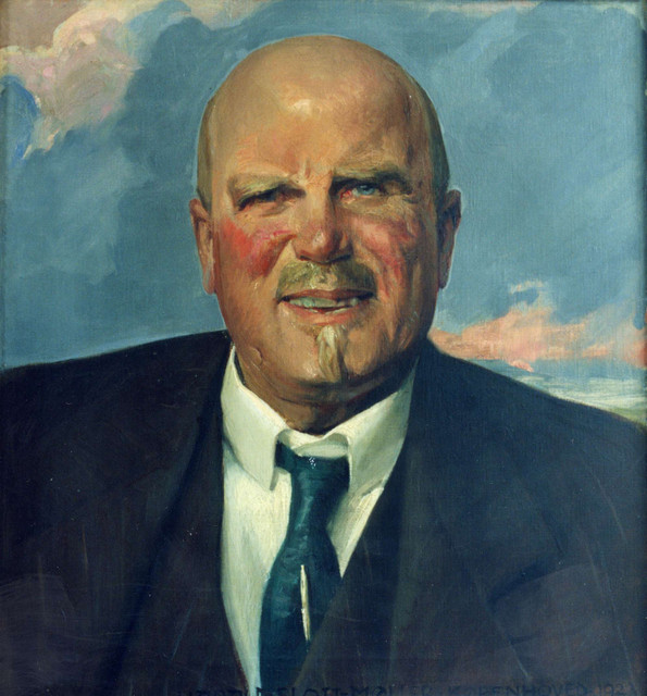 Portrait of Hans Didrik Kloppenborg-Skrumsager (1868-1930)